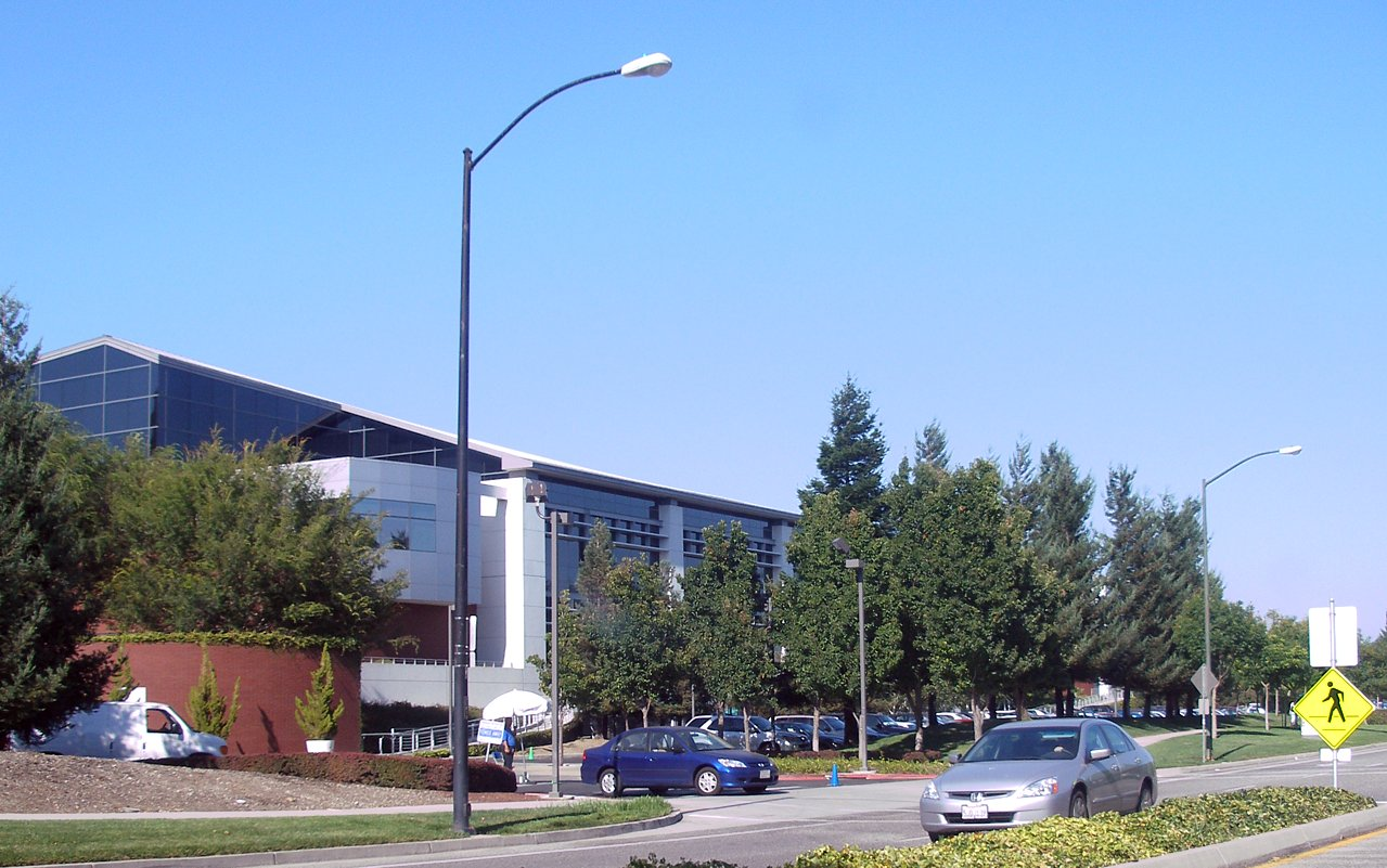 The south side of the Googleplex building in Mountain View, California, as seen from Charleston Road.